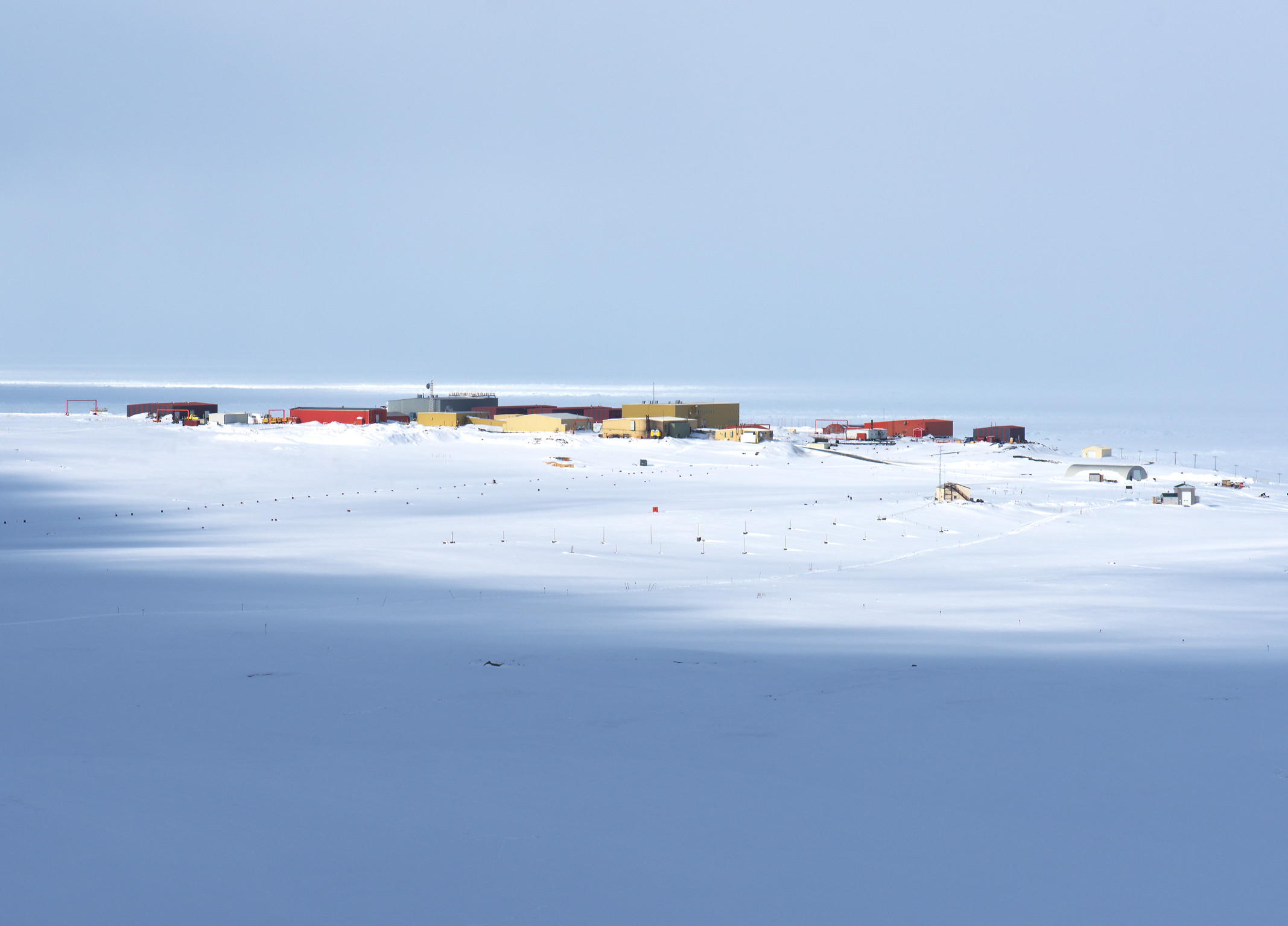 South-facing view of CFS Alert.